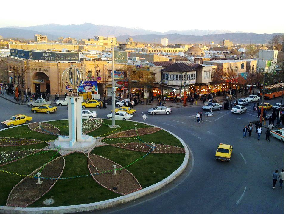 overview from khoy city center .in iran country